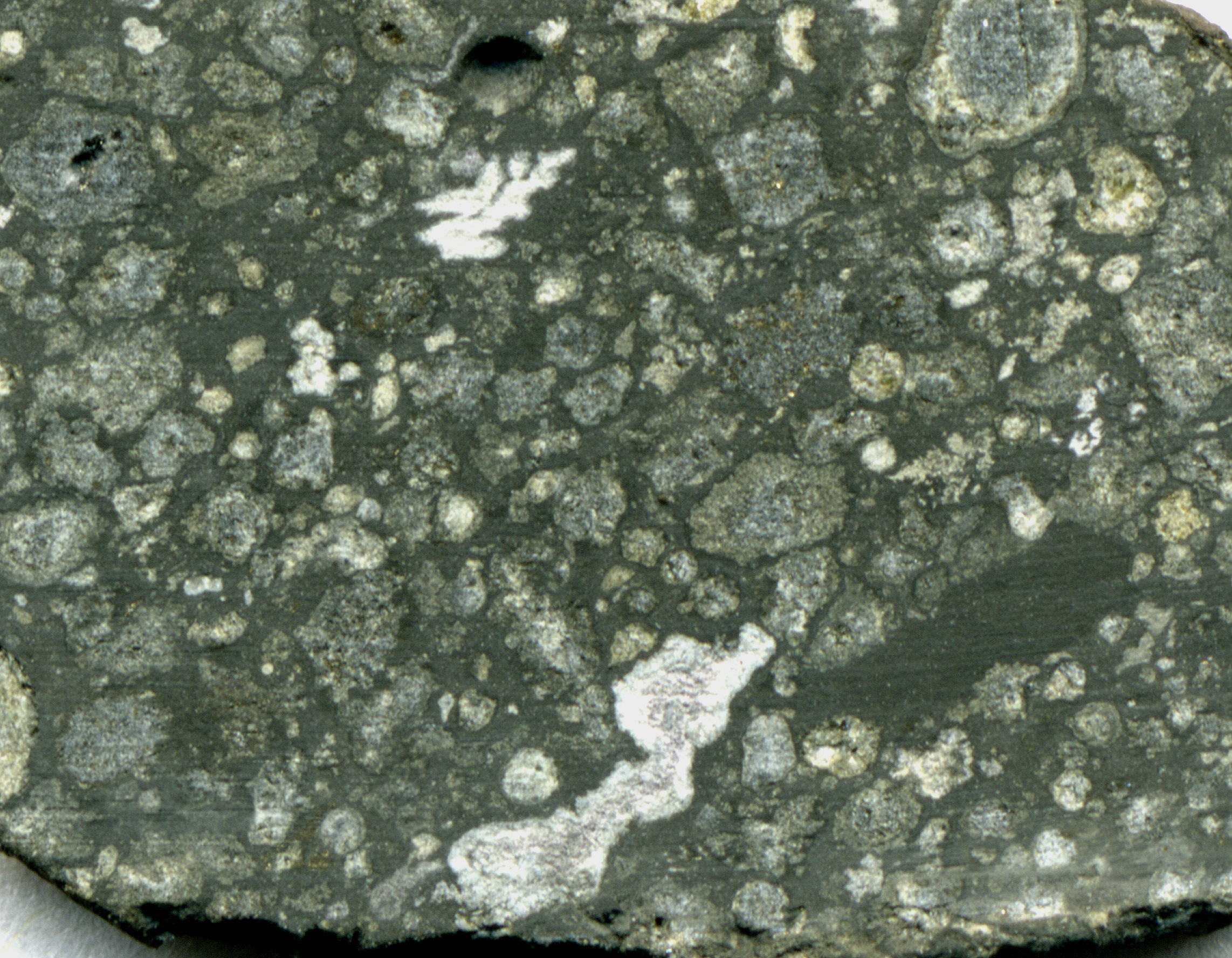 Allende meteorite, carbonaceous chondrite. Allende has small, spherical to subspherical structures called chondrules (all chondrites have these). Allende also contains whitish, irregularly-shaped patches called CAIs (“calcium-aluminum inclusions”), composed of high-temperature Ca-Al-Ti silicates & oxides. The blackish, fine-grained, carbon-rich matrix consists of Fe-olivine & poorly graphitized carbon. A few tiny specks of metallic iron-nickel alloy also occur. Allende rocks represent the near-oldest meteoritic material known. The olivine chondrules in Allende rocks date to 4.560 billion years. The CAIs in Allende rocks date to 4.568 billion years.